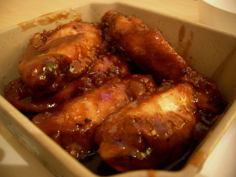 Who needs Buffalo Wings when you can have Honey Pepper Wings! The sauce is quite intriguing, with cracked pepper, garlic and very tangy! Star East Cafe